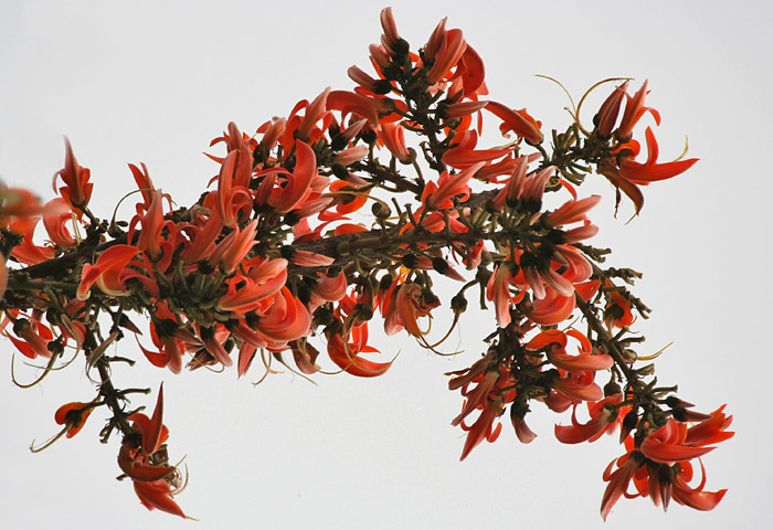 Dhak Butea monosperma in Kolkata, West Bengal, India.